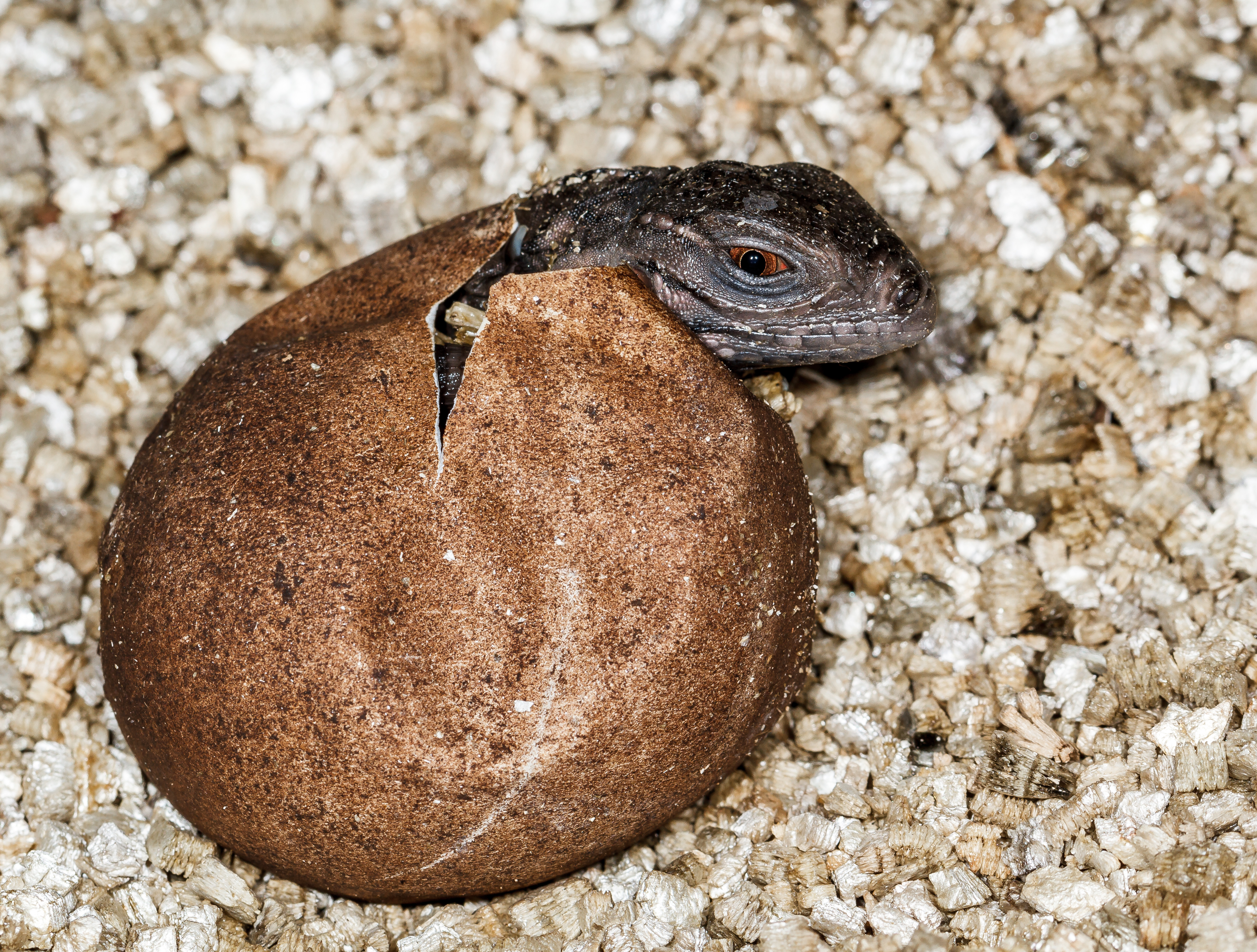 jung Cuban rock iguana in Prague Zoo